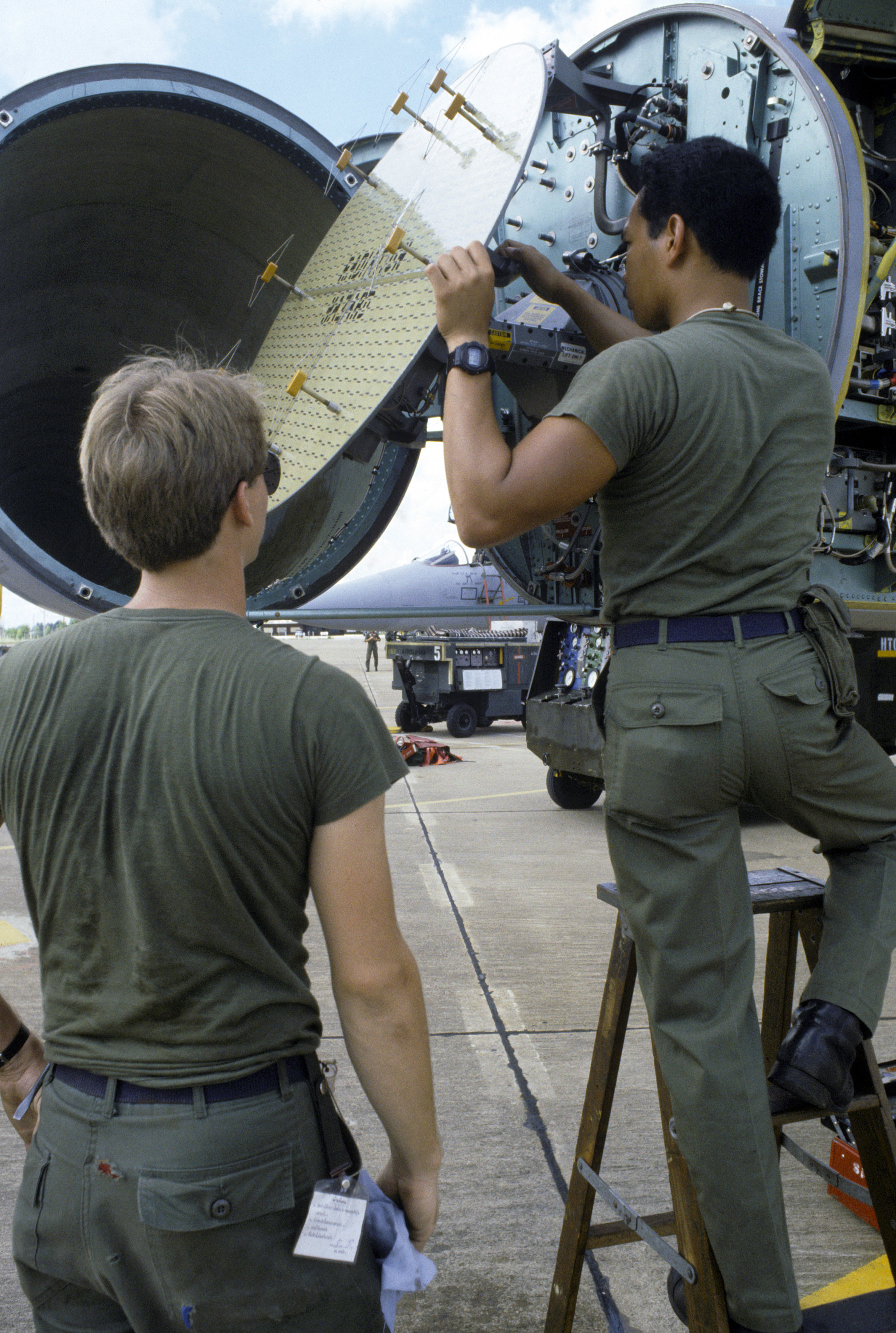 U.S. Air Force Senior Airman Segovia and Airman First Class James C. Samples of the 18th Aircraft Generation Squadron replace the radar dish of the AN/APG-63 radar on a 67th Tactical Fighter Squadron McDonnell Douglas F-15C Eagle aircraft during "Commando West IX", a joint US and Thailand training exercise, on 15 October 1985.